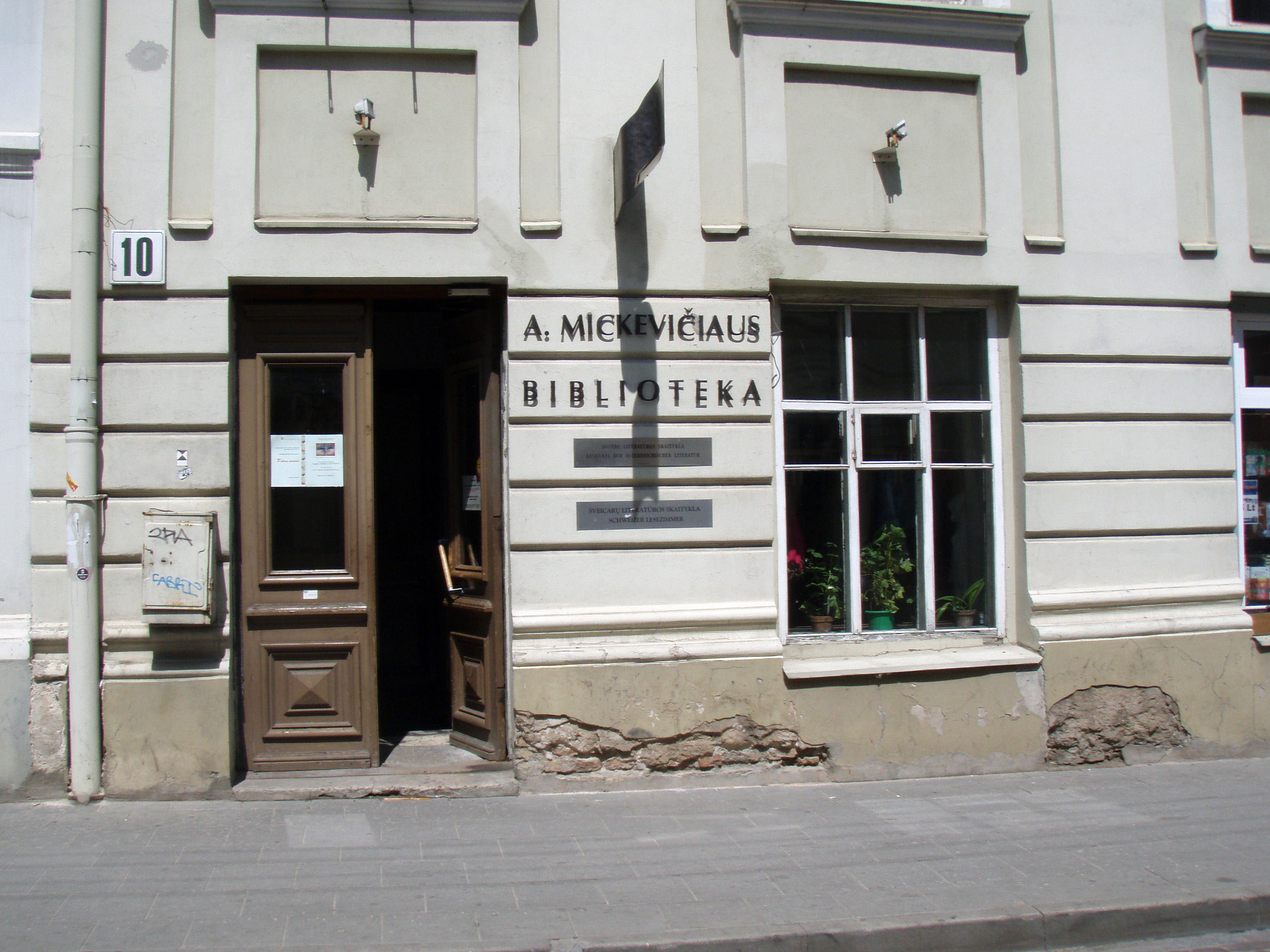 Vilnius Adomas Mickevičius public library